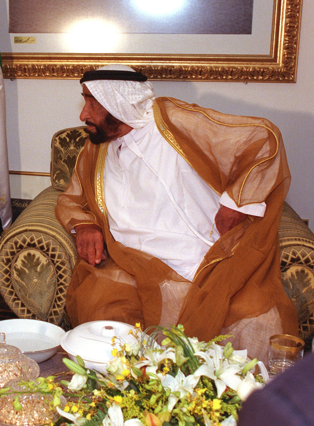 Zayid bin Sultan Al Nuhayyan, President of the United Arab Emirates, during a visit of US Secretary of Defense William Cohen to Abu Dhabi, November 5, 1998.